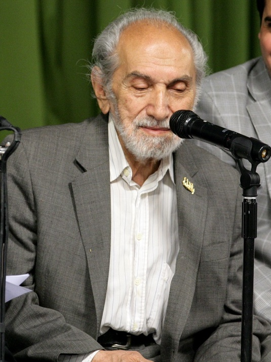 Habibollah Chaichian at the collection of ritual poets with Ayatollah ali Khamenei